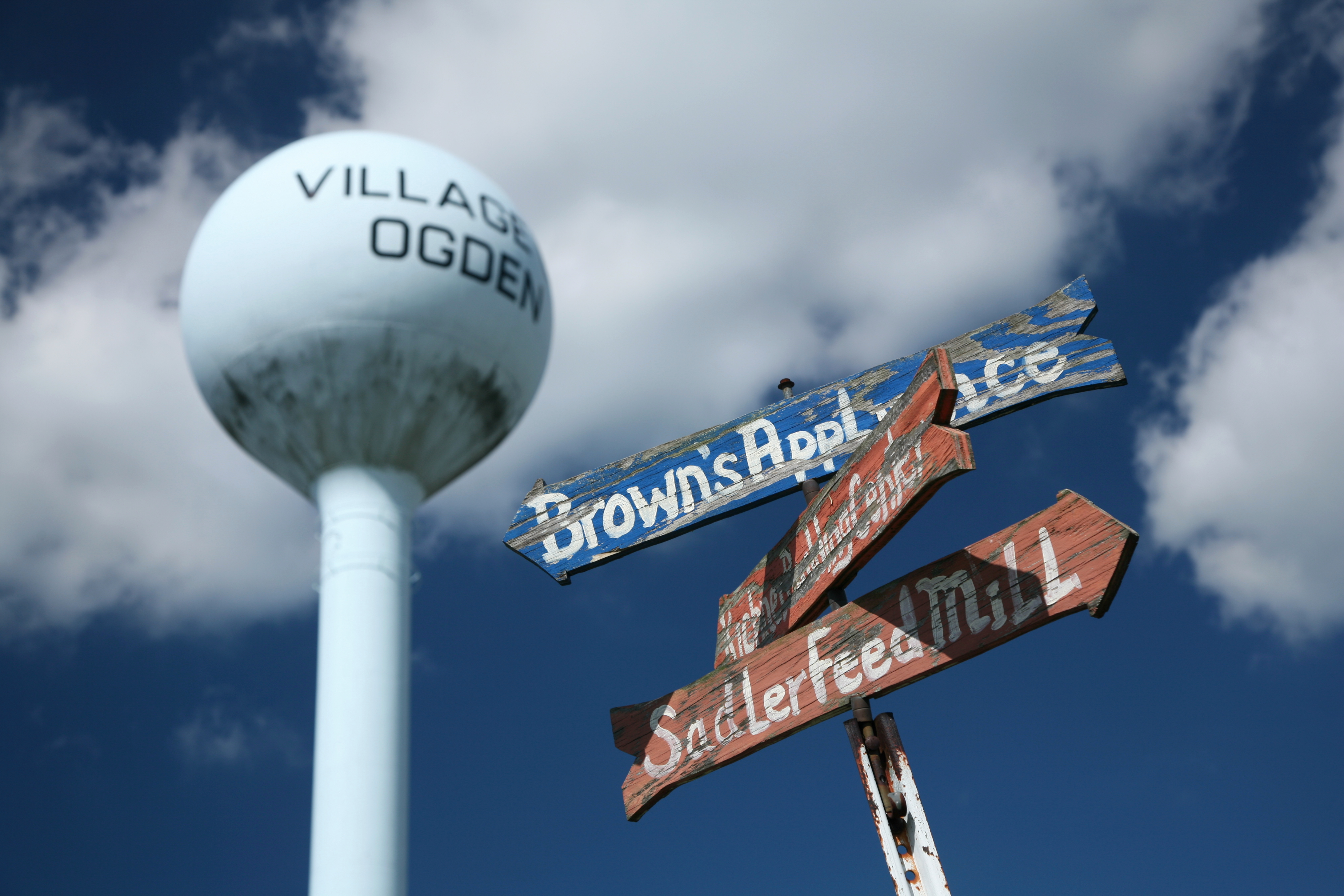 Signpost in Ogden, Illinois. Watertower in the background